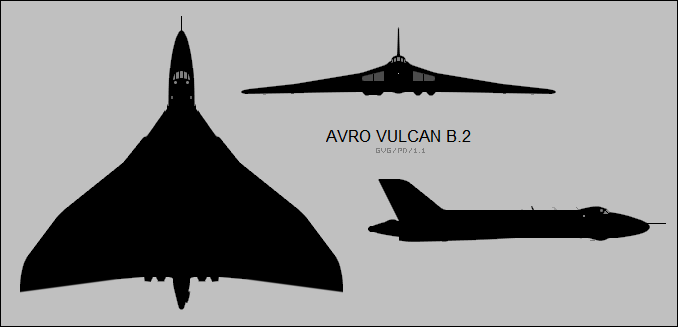 3-view silhouettes of the Avro Vulcan B.2